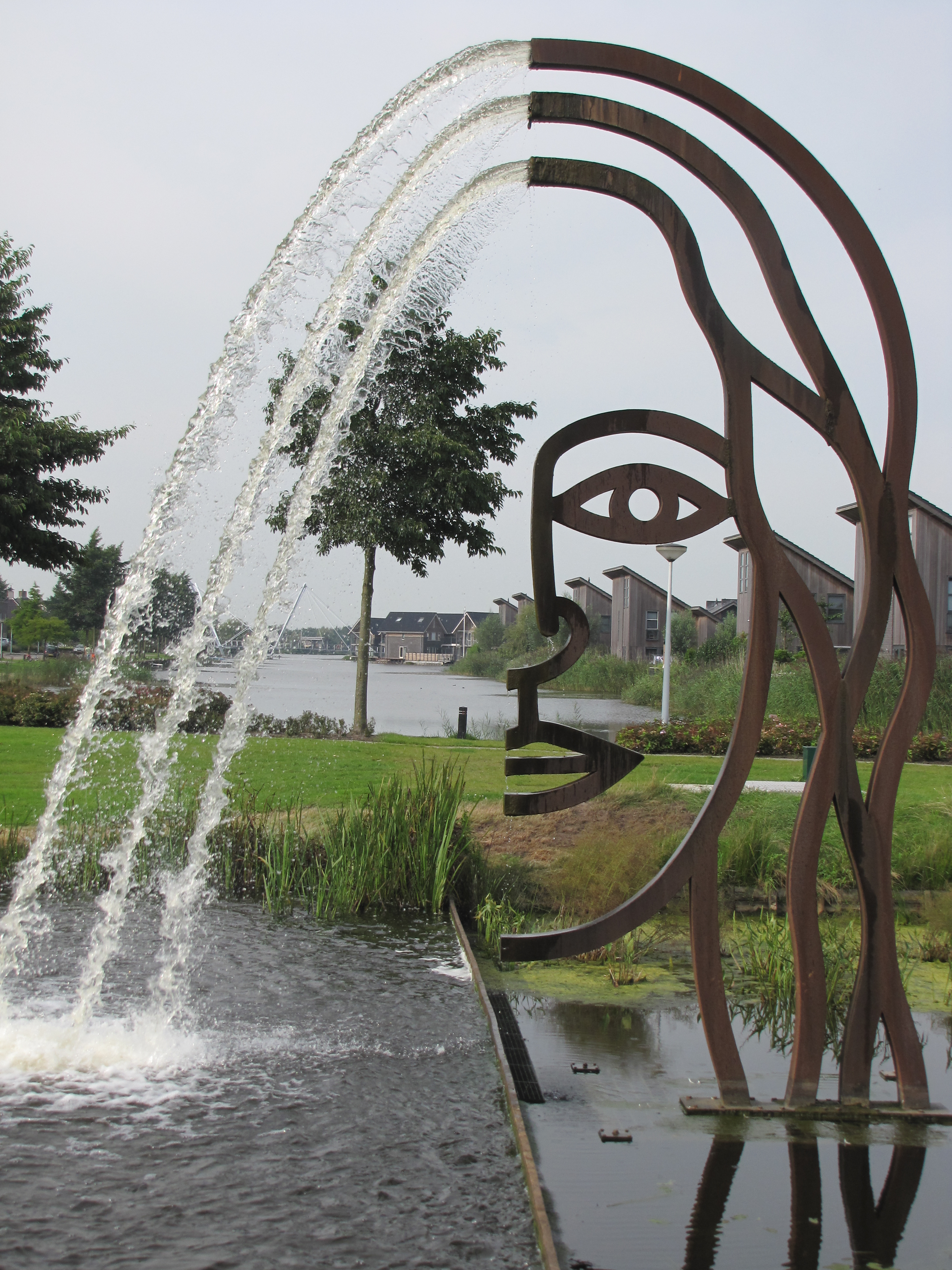 Town of Joure. Piece of art at the entrance to the neighborhood of Wyldehoarne.